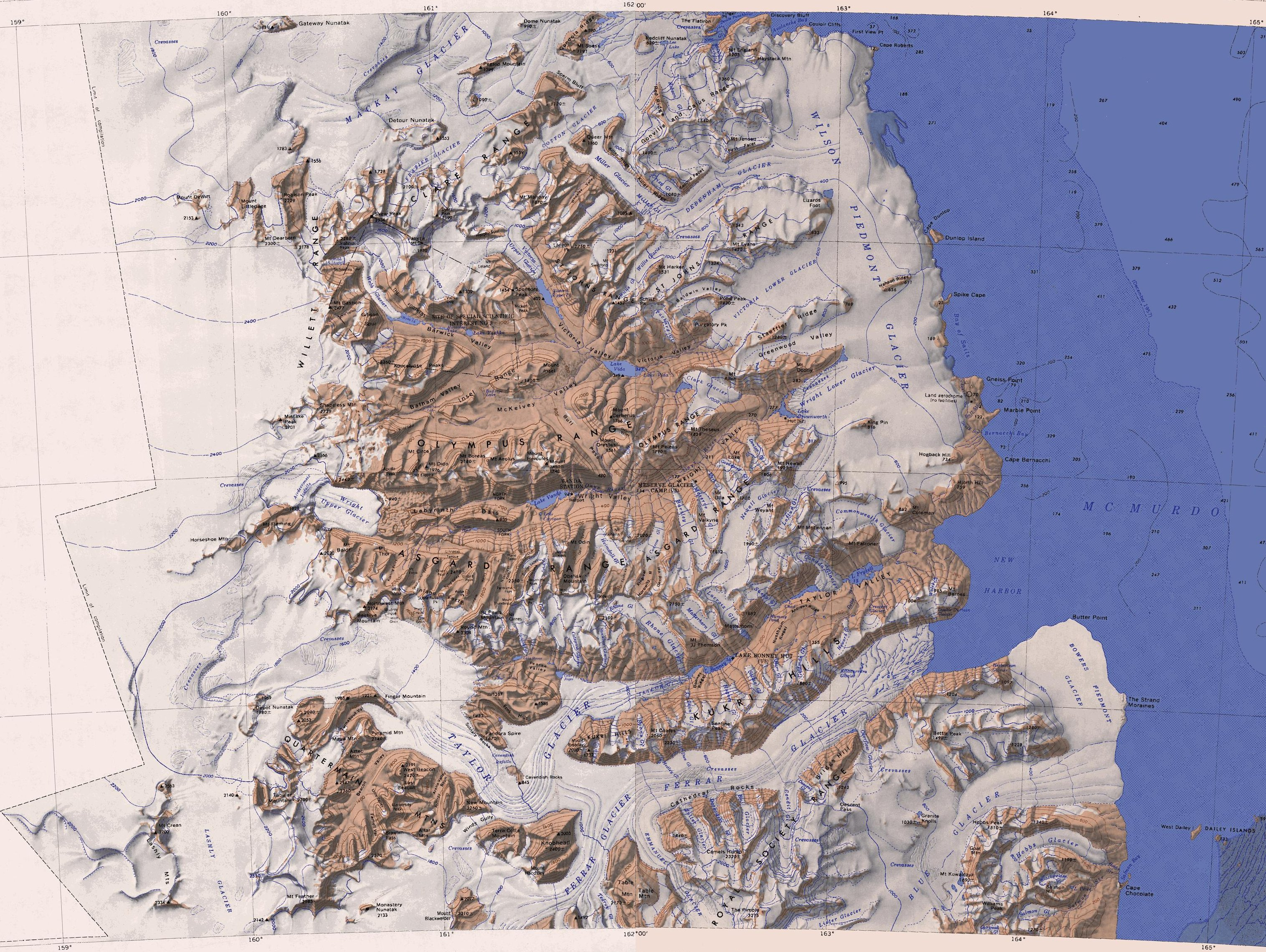 Map of the McMurdo Dry Valleys merged from two 1:250,000-scale topographic reconnaissance maps published by the U.S. Geological Survey in cooperation with the National Science Foundation, both compiled in 1962 (the western half revised in 1988, the eastern half in 1970). It comprises the area from 77° to 78° South and approximately 158° to 165° East